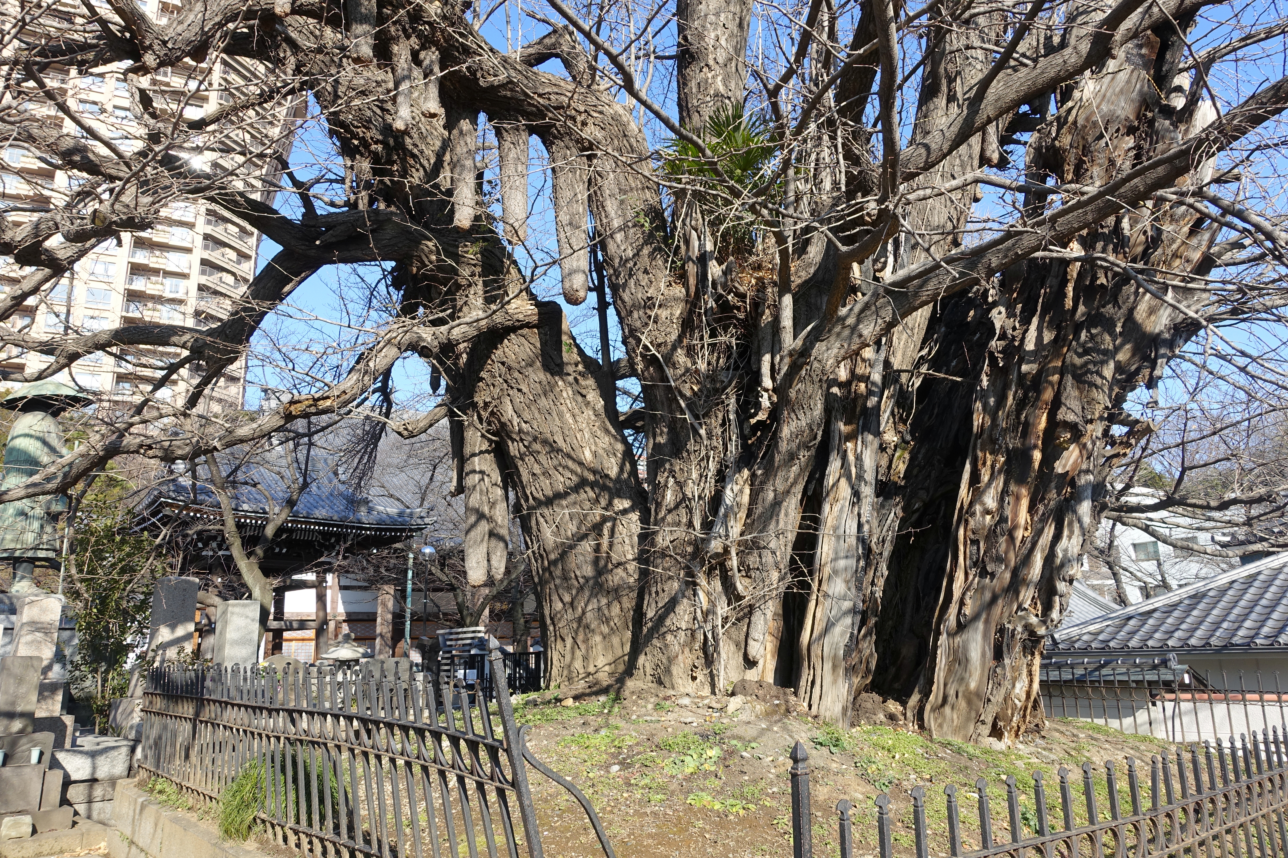 Zenpukuji temple - Minato, Tokyo, Japan.